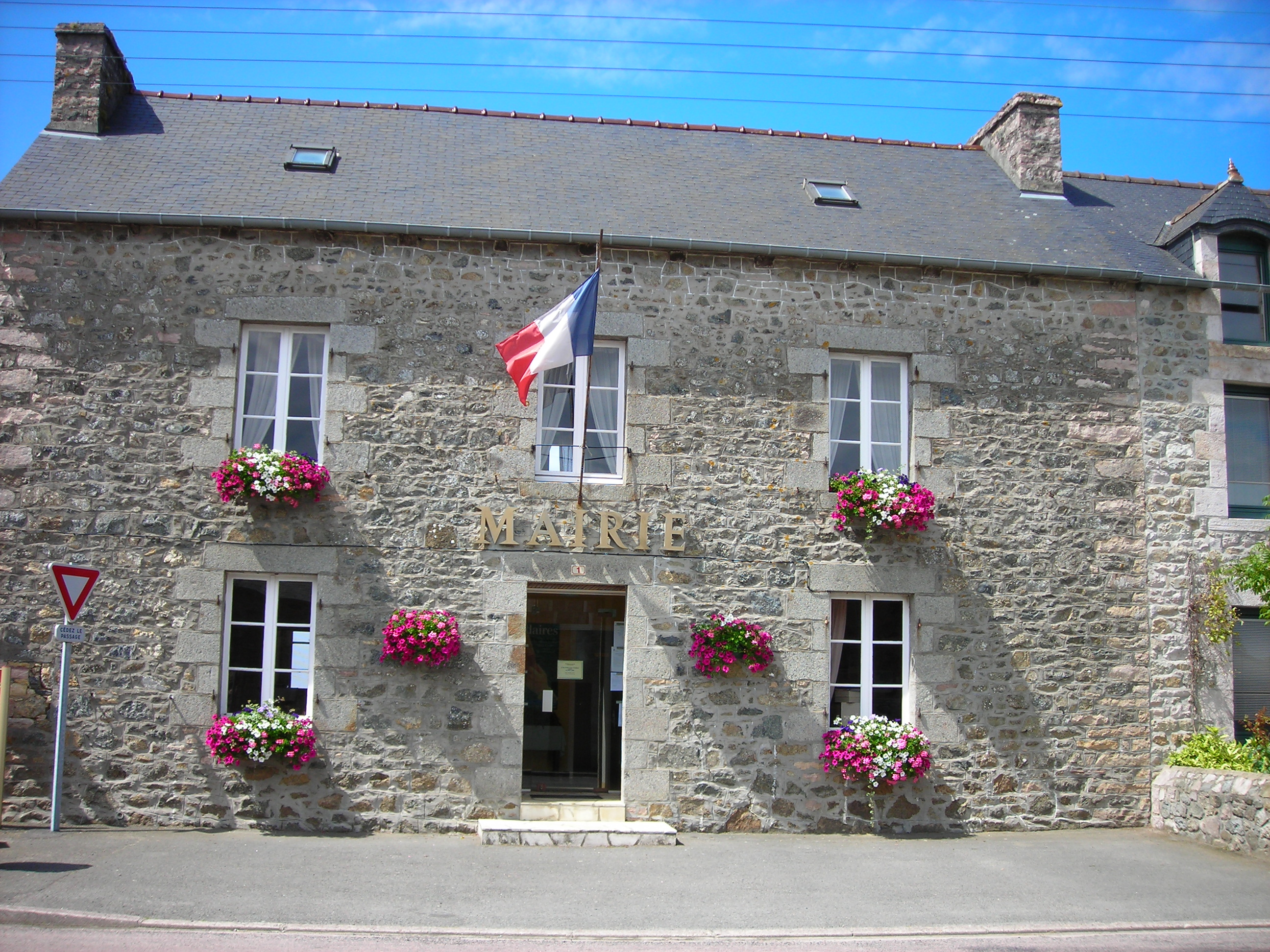 Mairie de la Bouillie (Côtes-d'Armor, France, Europe)